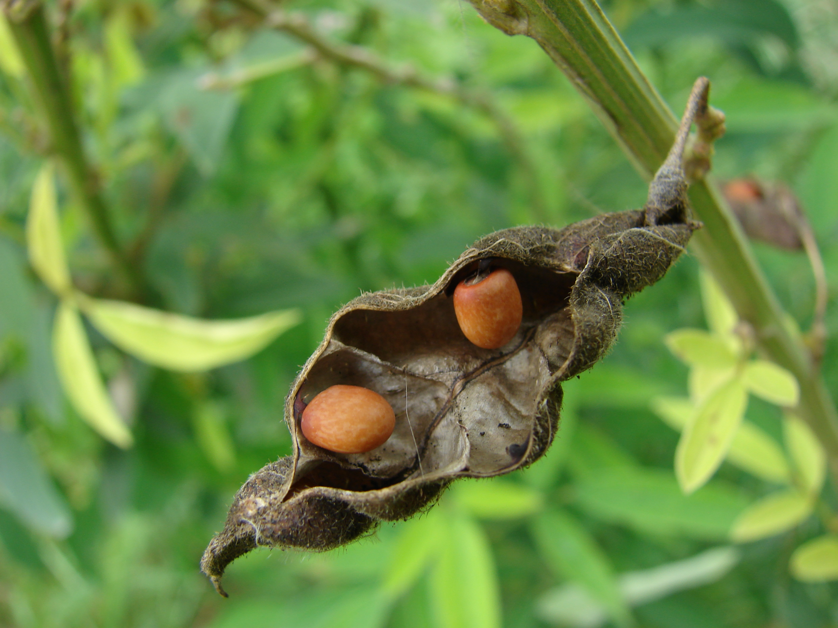 Cajanus cajan (seedpods). Location: Midway Atoll, Community Garden Sand Island